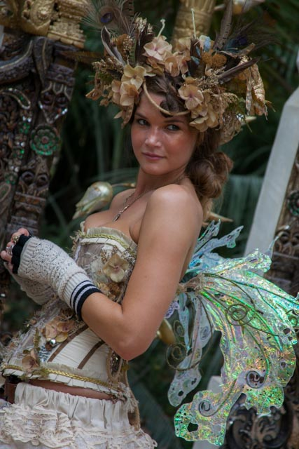 I took this photo at the 2012 Texas Renaissance Festival in Todd's Mission, TX near Houston in October 2012. This was the 2nd weekend of the TRF and it featured a fairy theme, The TRF is huge - you really need two days to take it in - there are stage acts, performers, jousts, belly and Brazilian dancers, chain mail models, and pirates everywhere you look - but the best part for me is just walking around people watching - it is incredible. There are so many people in elaborate costumes that my neck hurt from constantly looking in all directions - and they didn't mind me shooting them. What a blast - this is something I'm really looking forward too each year.